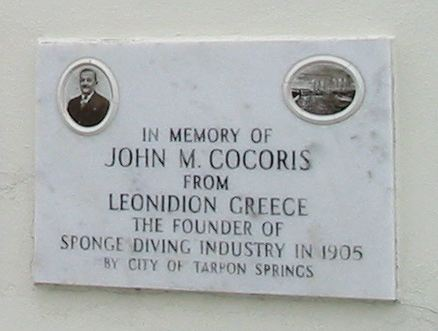 Plaque in Tarpon Springs commemorating John Cocoris. Photograph by J. Williams. (March 18, 2005).